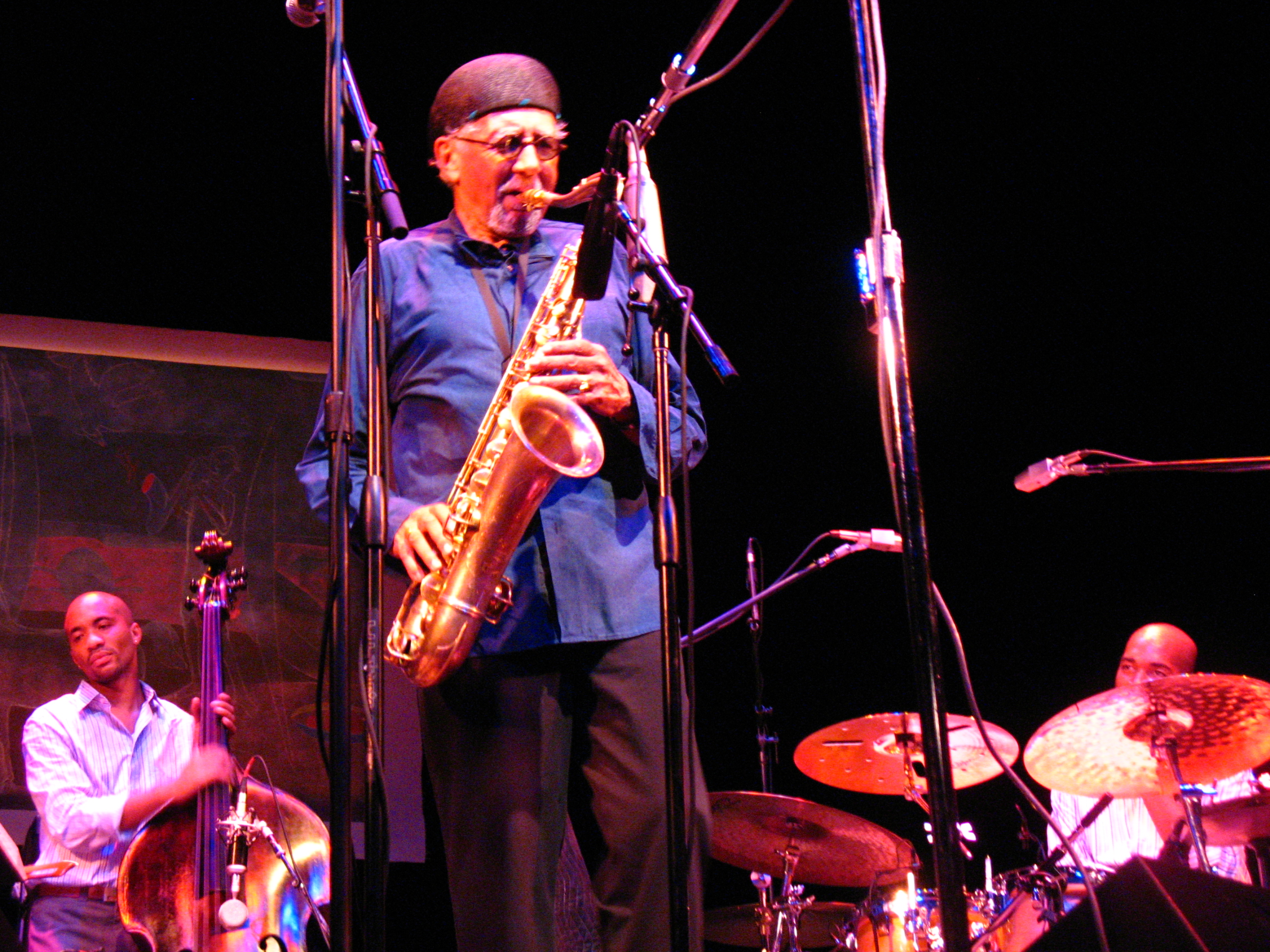 Taken at the Lobero Theater in Santa Barbara, September, 2006. Other images by this contributor - User:Sba2 Use this image as needed, but for uses other than personal, please credit as "Photo by Scott Williams".